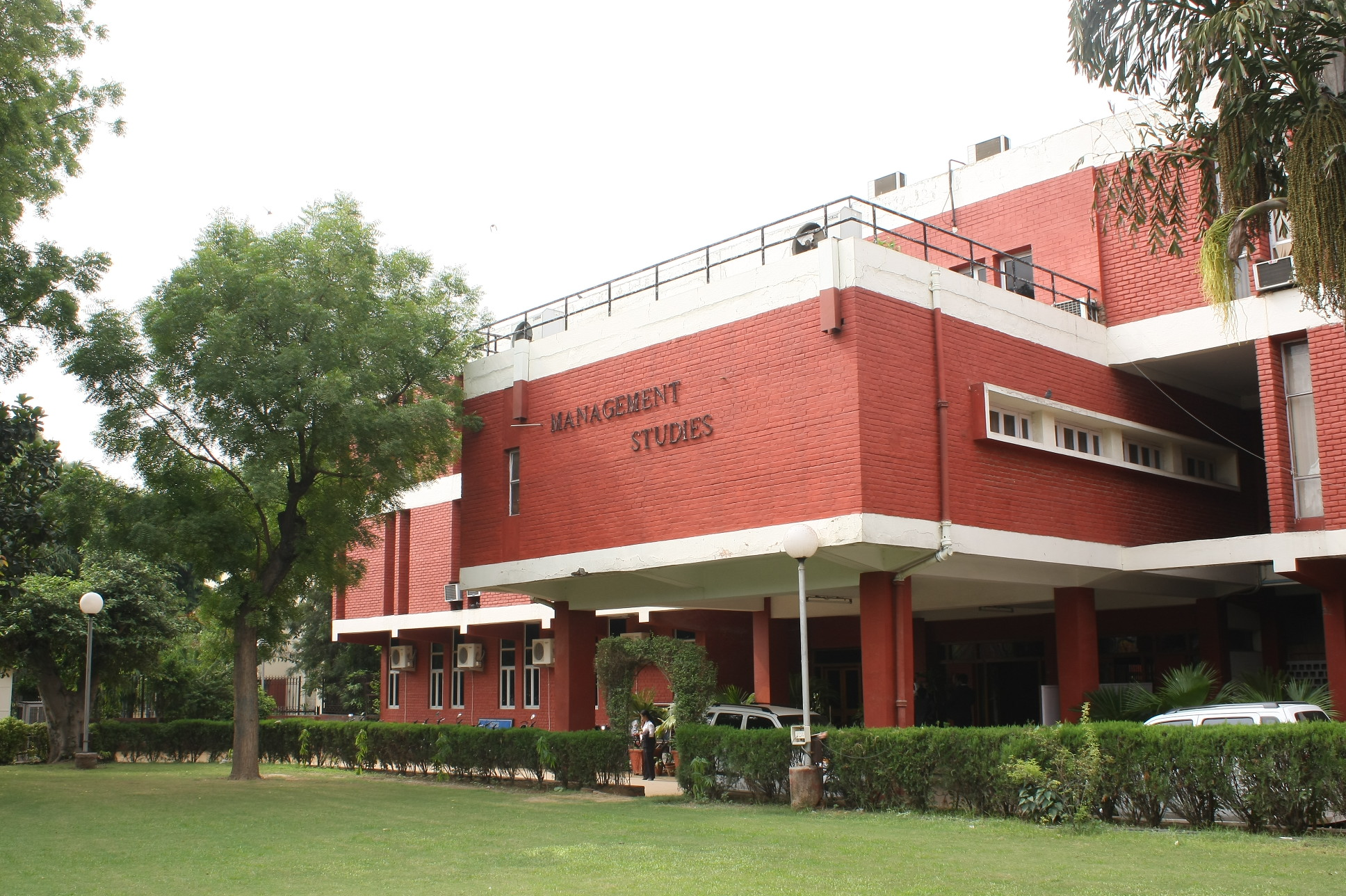 The image shows the isometric view of Faculty of Management Studies Delhi's building.